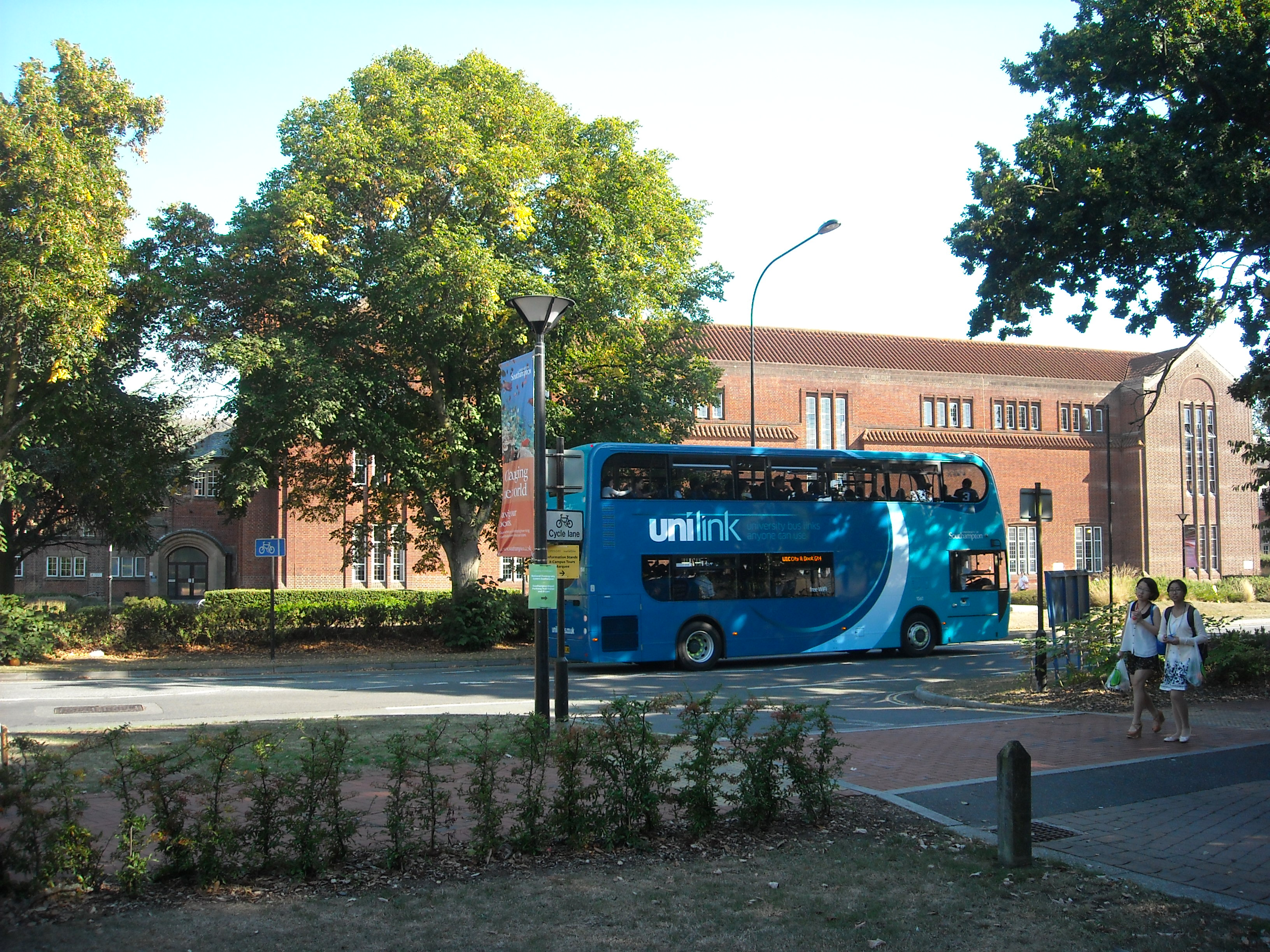 One of Unilink's new Alexander Dennis Enviro 400 buses, launched on 3 September 2013, passing through Highfield campus on the U1C route.